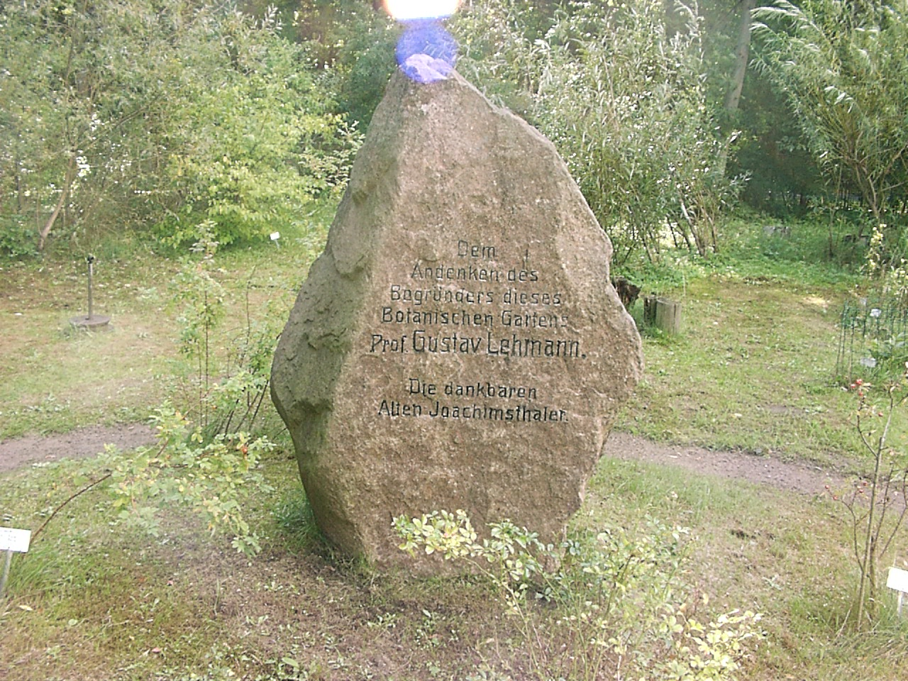 Botanical garden "Lehmann Garden" at Joachimsthalsches Gymnasium in Templin, Brandenburg, Germany.